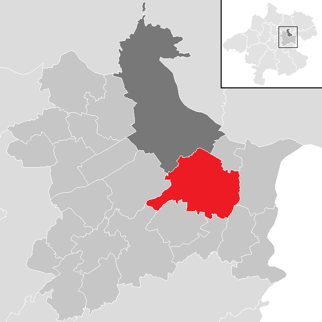 district Linz-Land